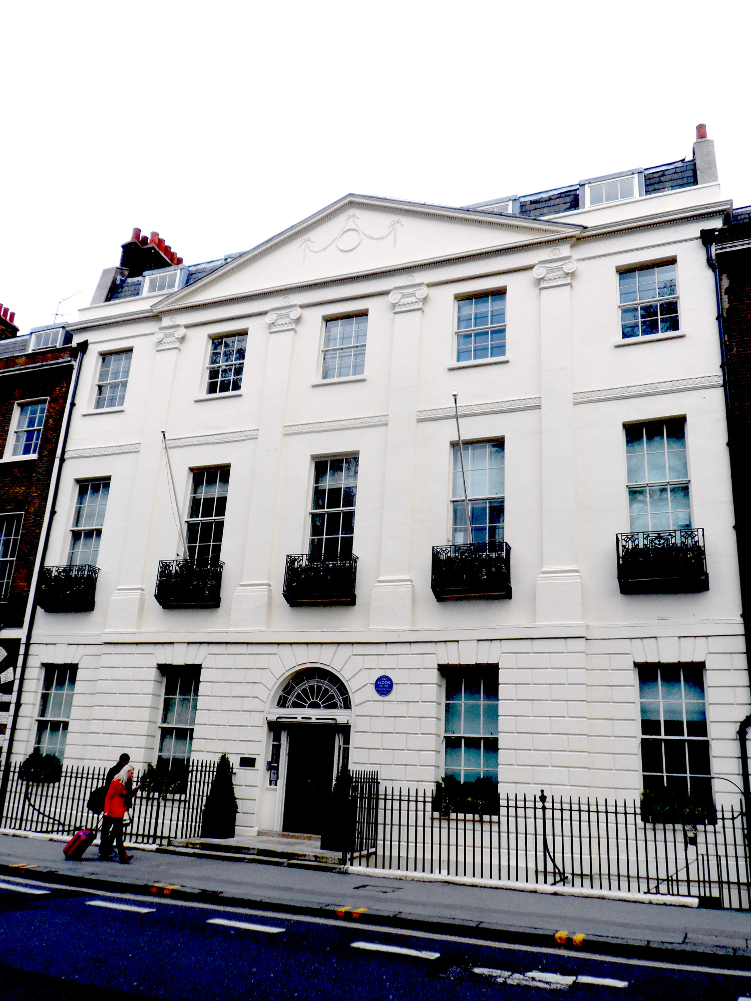 Lord Eldon 1751-1838 Lord Chancellor lived here - 6 Bedford Square Bloomsbury WC1B 3RA